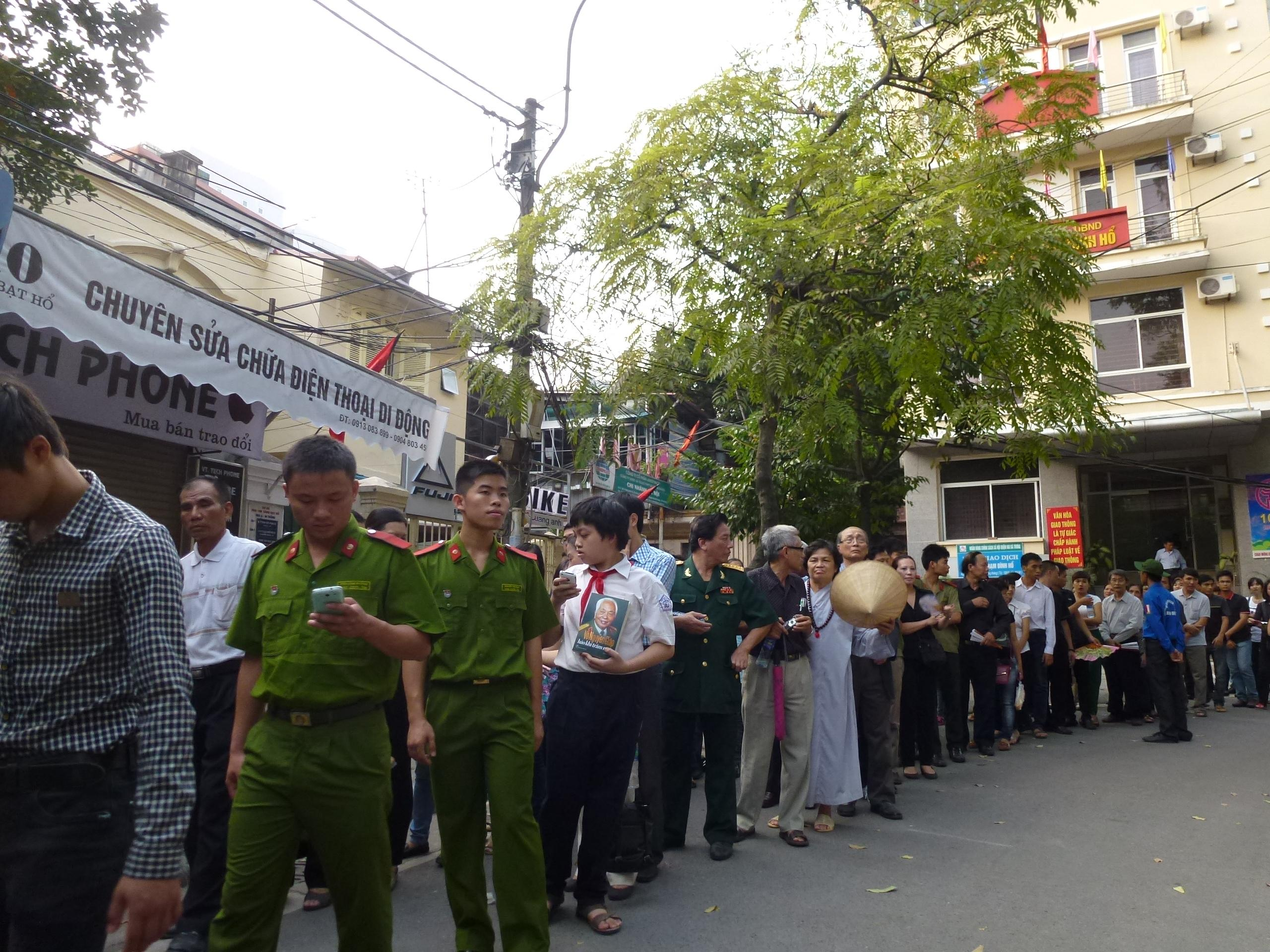 Vietnamese people are lining up to pay respects to General Vo Nguyen Giap in Hanoi; a pupil is holding a book with Gen Giap's image